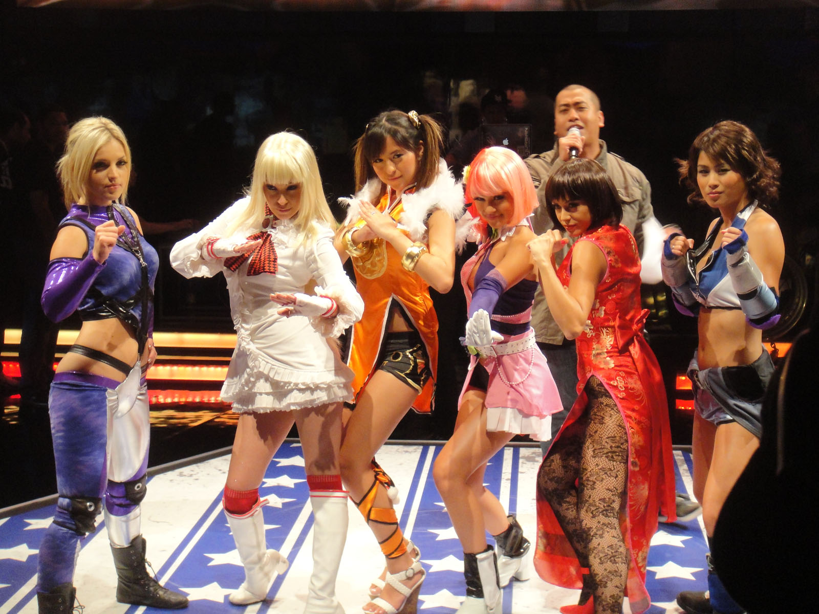 This photo was taken on June 5, 2012 using a Sony DSC-T900.